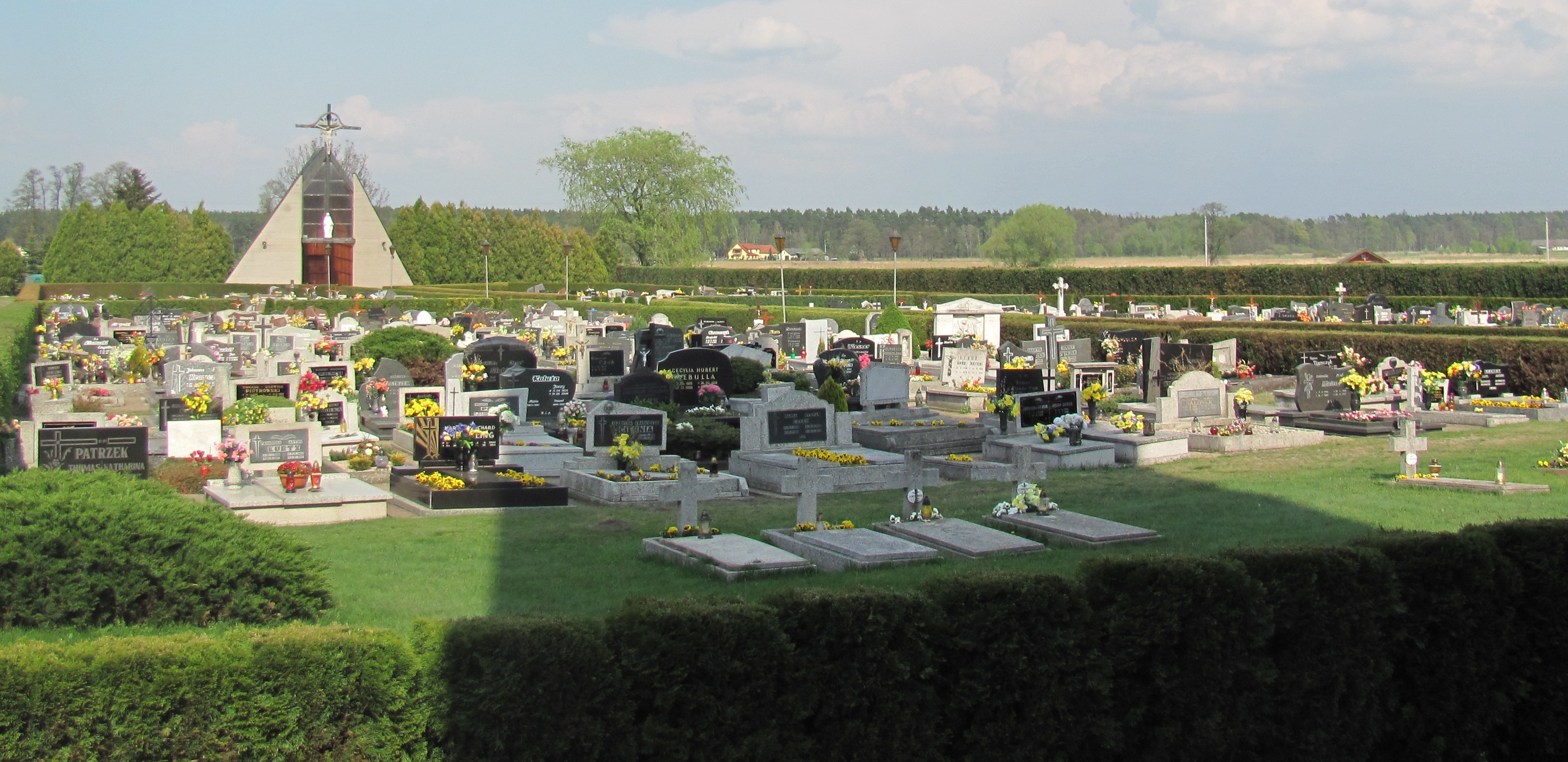 Cemetery in Brynica